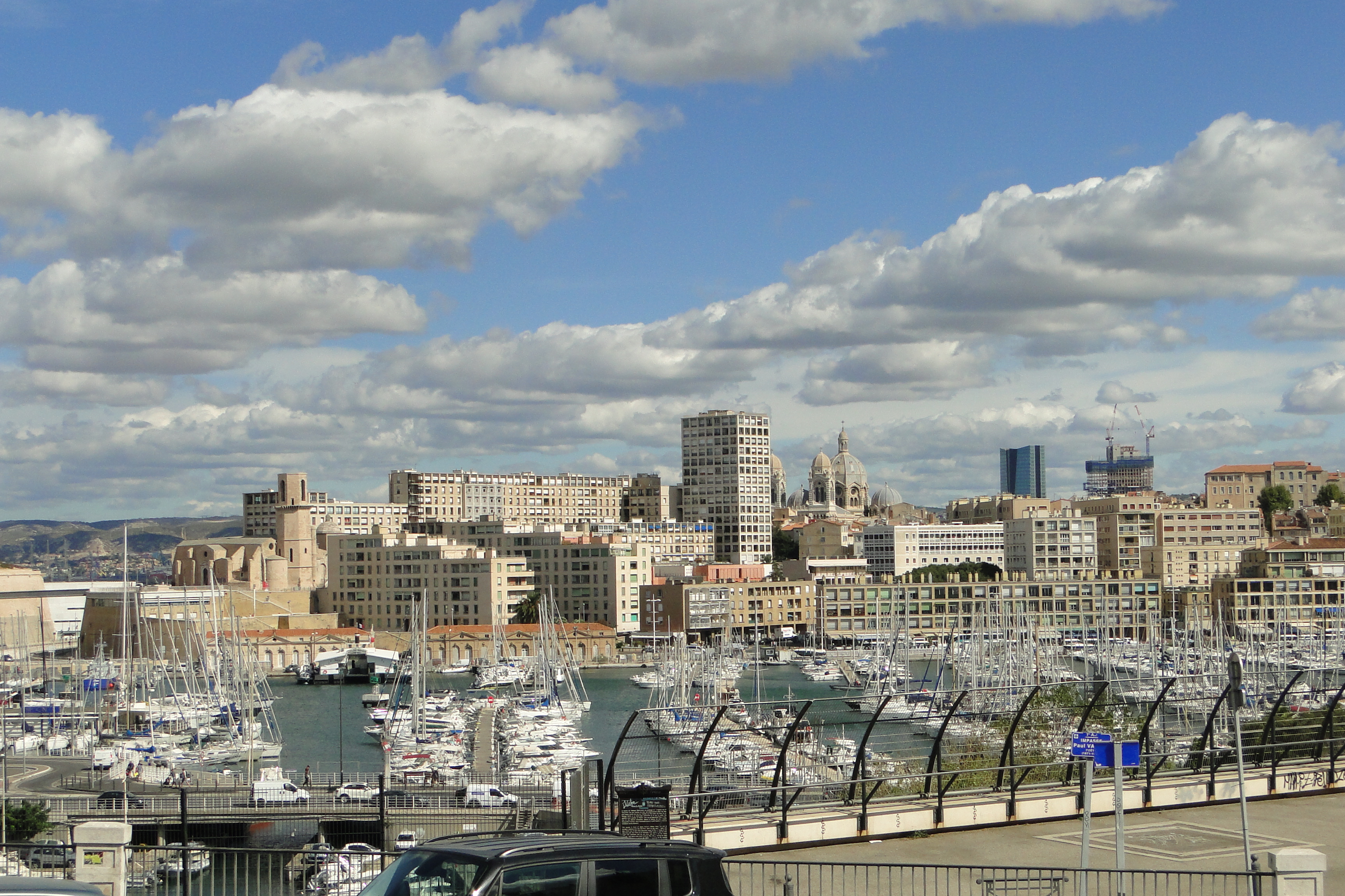 The Vieux Port as seen from bottom of the hill of Notre Dame de la Guarde